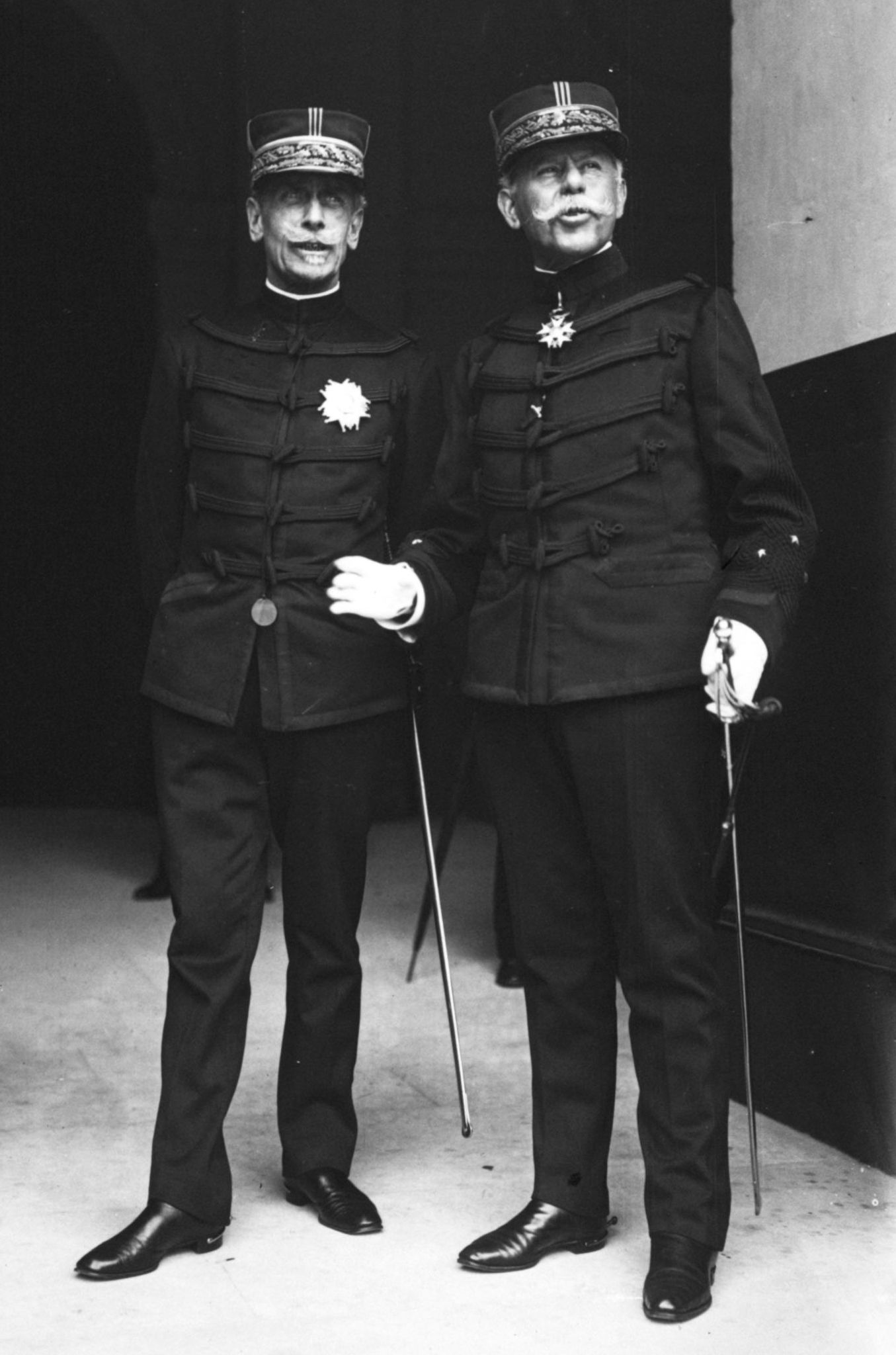 French generals Jean-Baptiste Dalstein (1845-1923) and Gustave Léon Niox (1840-1919)